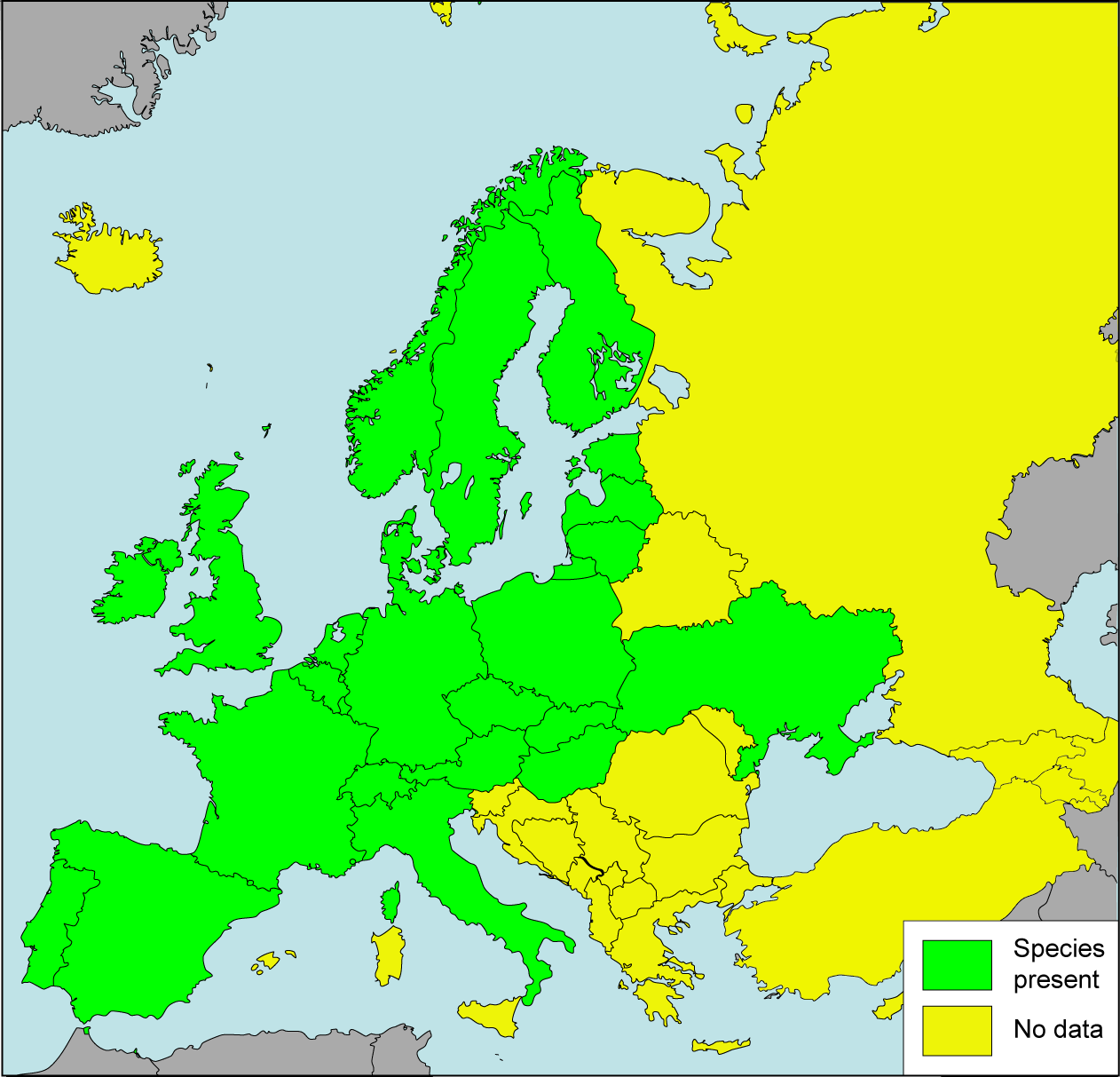 Potamopyrgus antipodarum, freshwater prosobranch snail species: presence in European countries based upon data from: Fauna Europaea: Potamopyrgus antipodarum